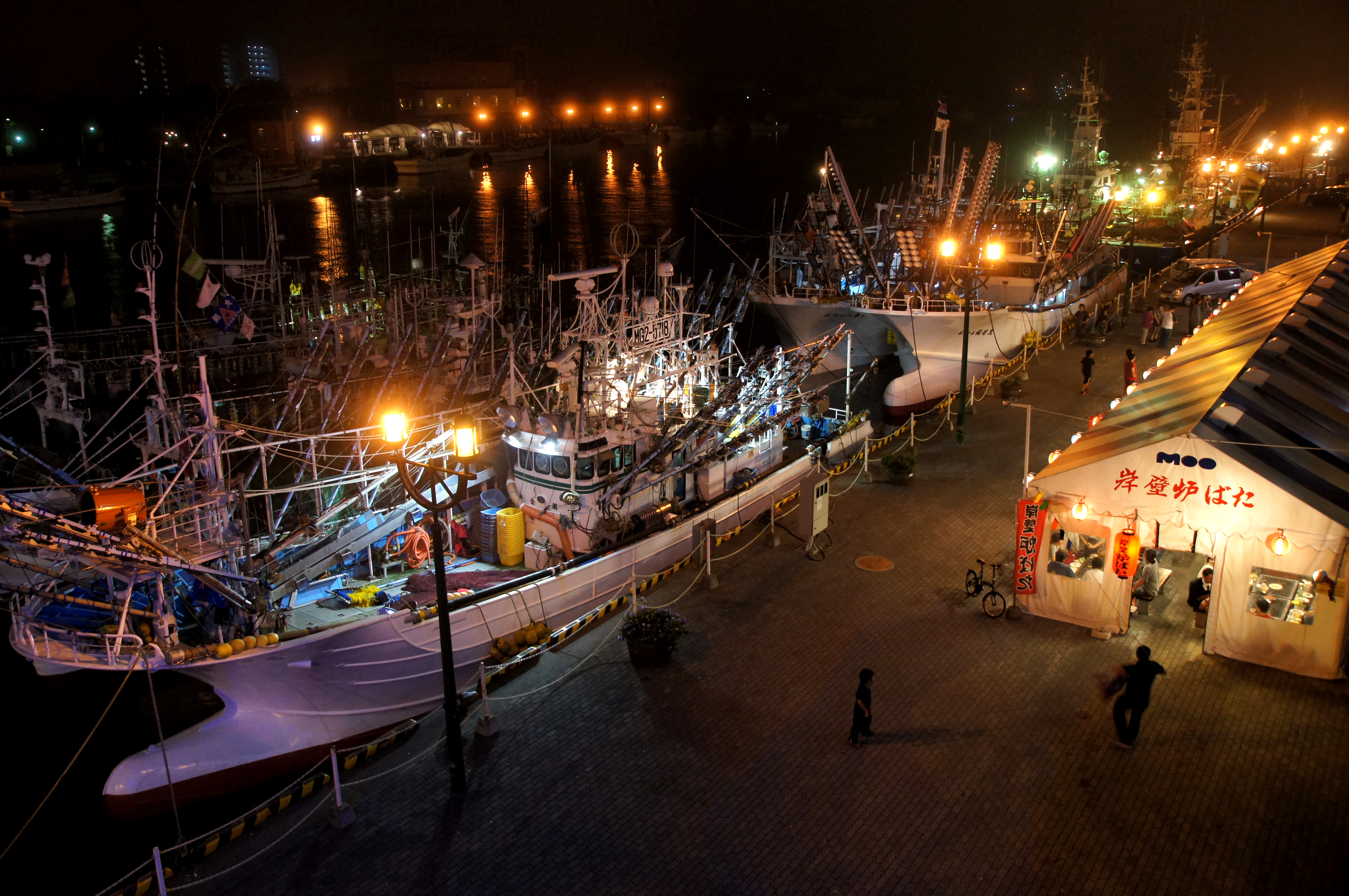 at Port of Kushiro, Kushiro City, Hokkaido prefecture, Japan